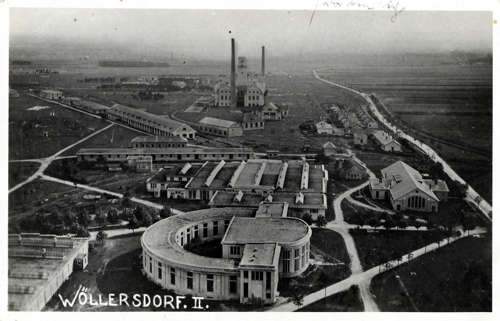 Old ordnance factory in Wöllersdorf-Steinabrückl / Lower Austria / Austria / EU. Old Postcard. From 1933 till 1938 was the disused factory a concentration camp of the Austrofascism (Fatherland Front Vaterländische Front and her paramilitary Homeguard Heimwehr with their leaders Engelbert Dollfuss and Kurt Schuschnigg).